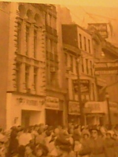 Victoria Hall, Early 1900s, Hamilton Specator